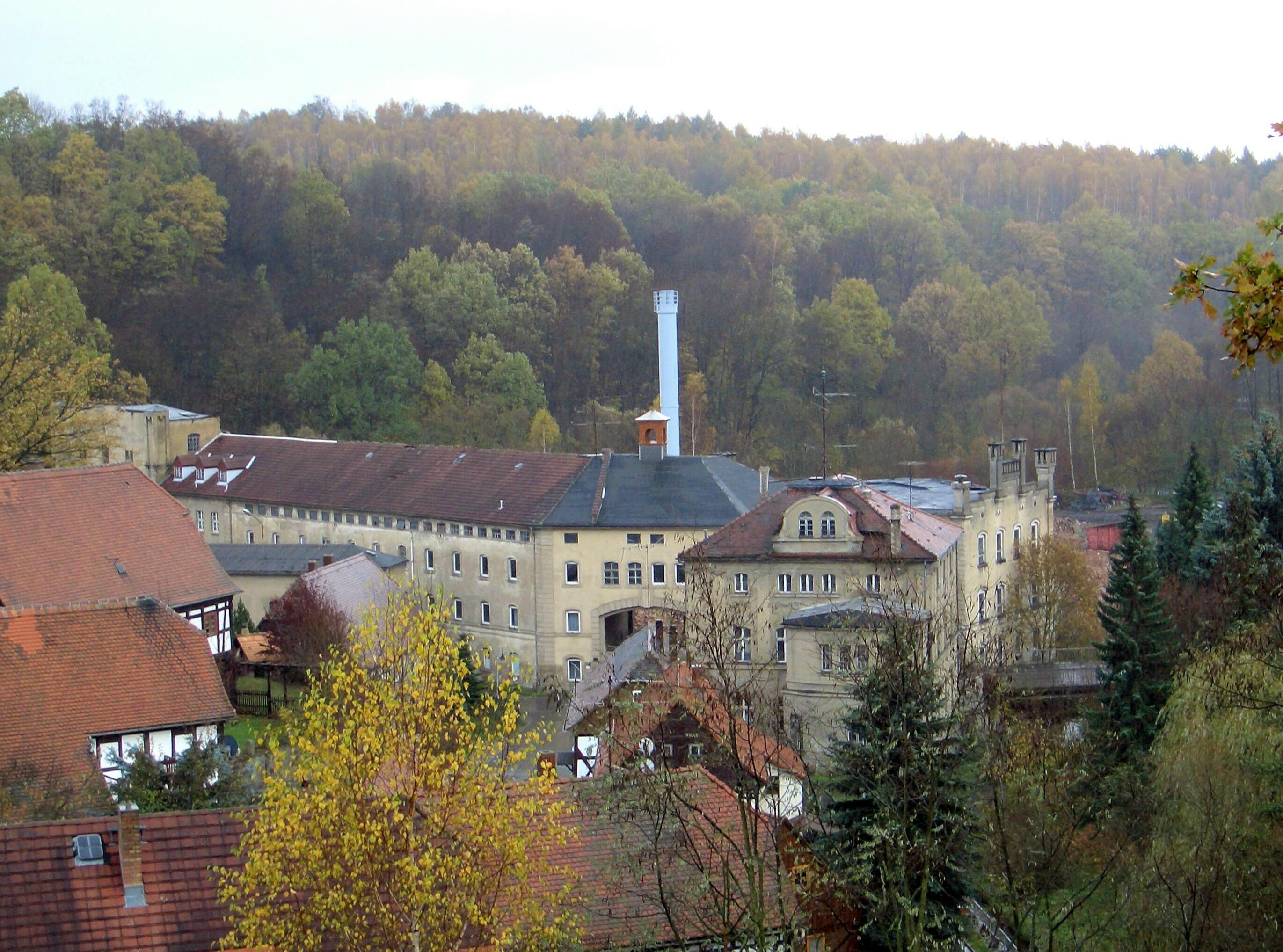 View of the factory in November 2006. Flax mill Hirschfelde, Saxony, Germany